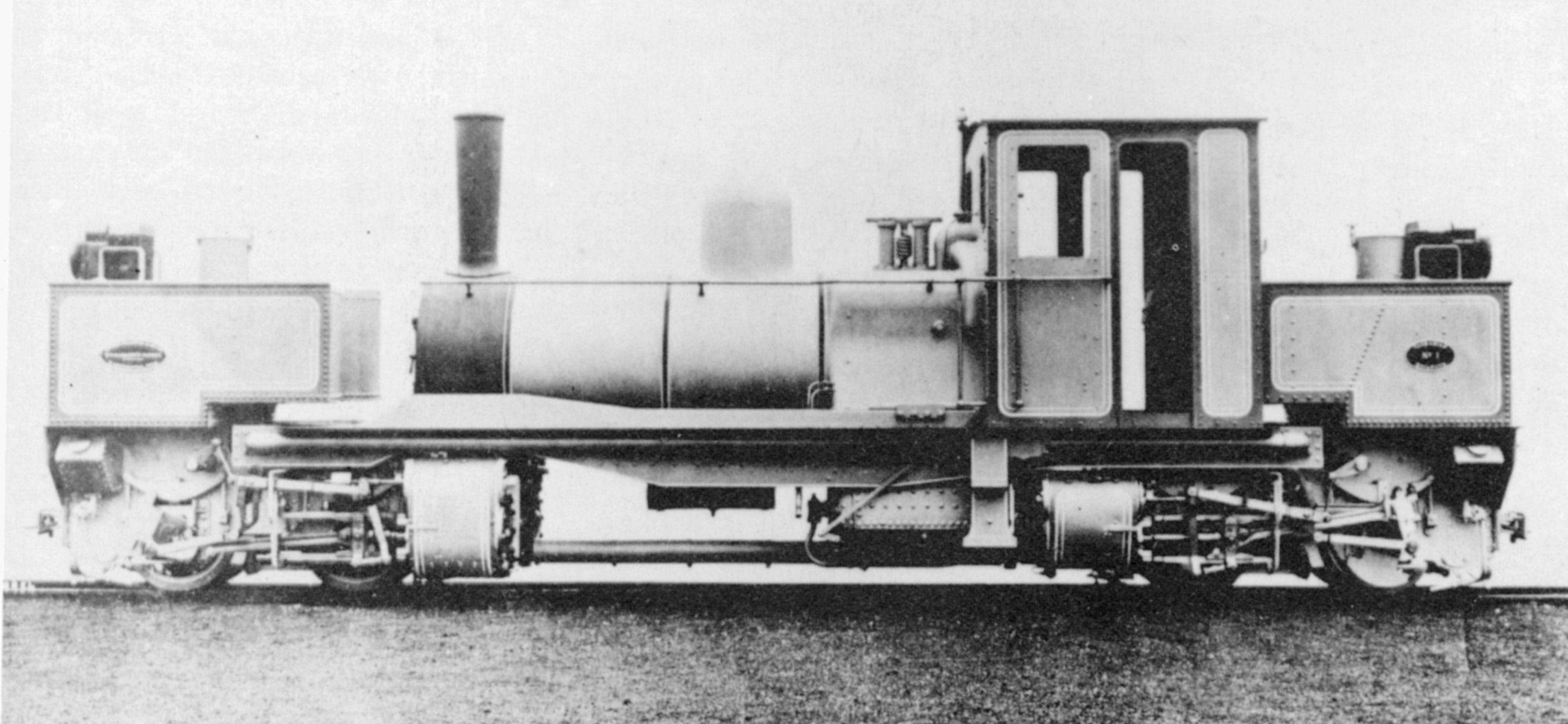 Beyer Peacock works photograph of K1, the world's very first Garrat steam locomotive, built for the North East Dundas Tramway in Tasmania. This engine is now preserved at the Welsh Highland Railway.